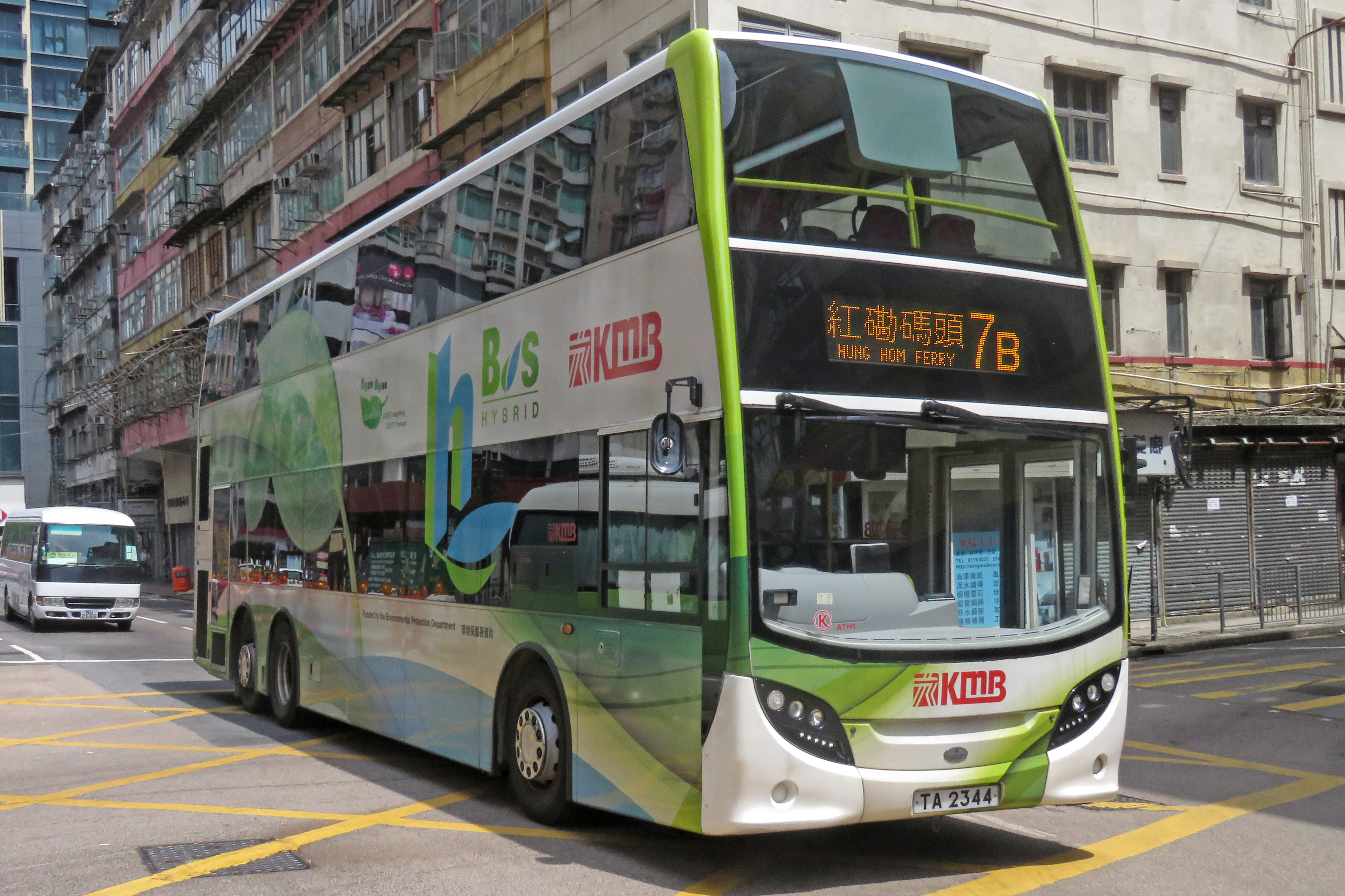 Bumped into this hybrid fellow en route from PolyU Block Z to Whampoa.